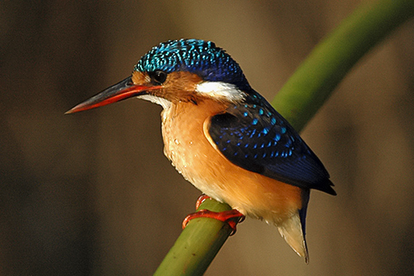 Uganda Malachite Kingfisher (Alcedo cristata)